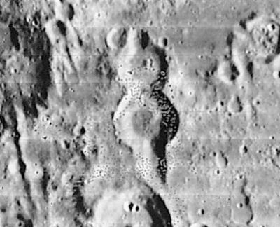 Vogel lunar crater - Lunar Orbiter - IV image LOIV-101-H2